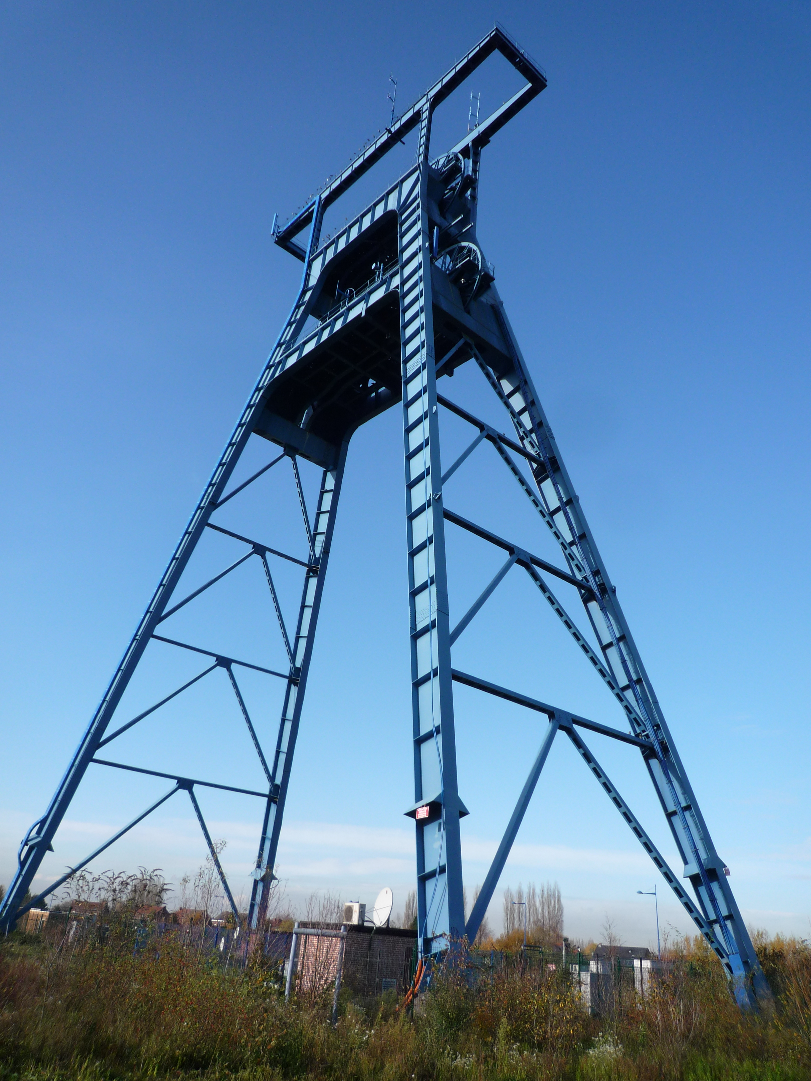 Pit number 9, Compagnie des mines de l'Escarpelle, Roost-Warendin, Nord, Nord-Pas-de-Calais, France.